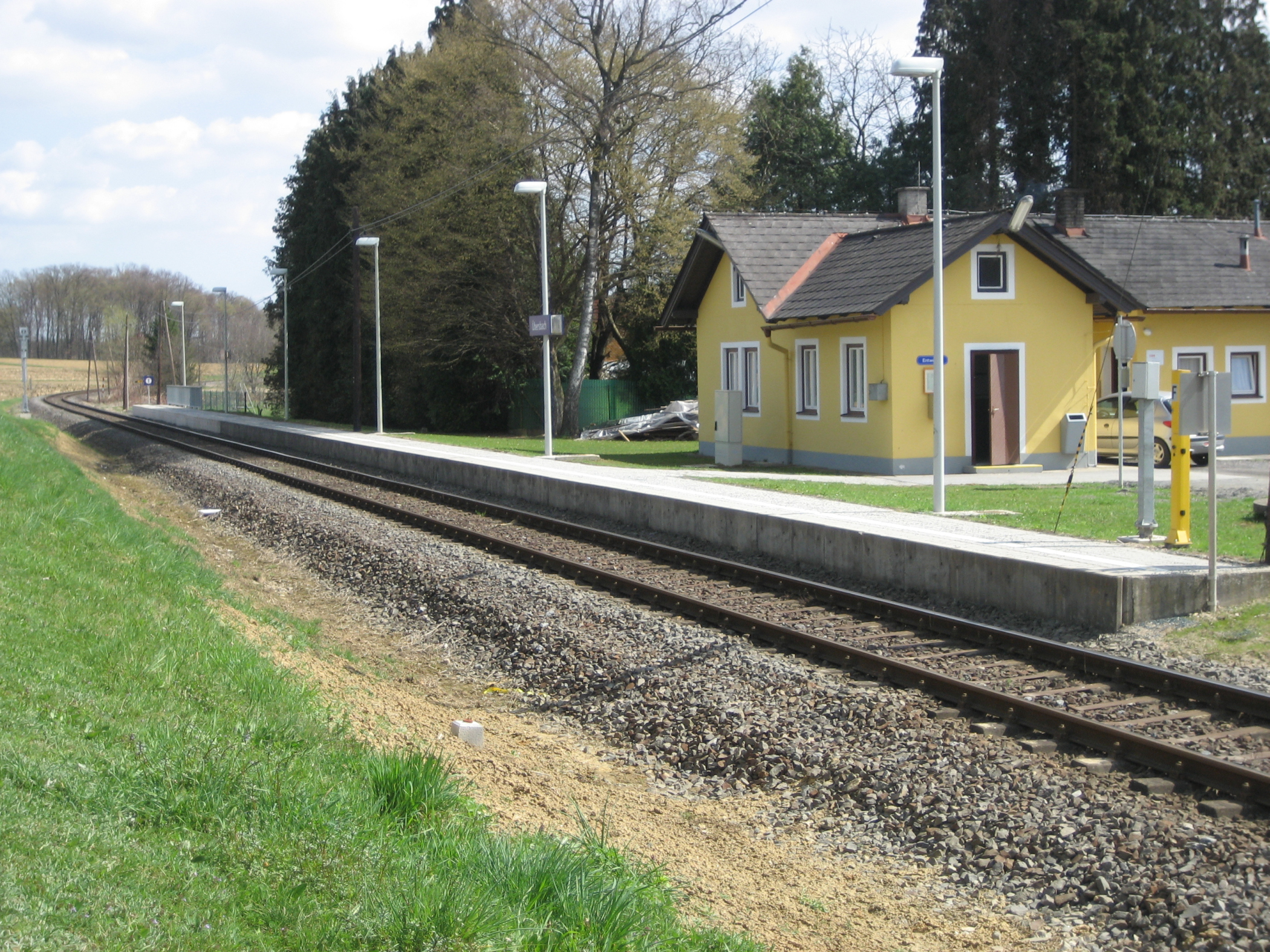 Train station Übersbach in Styria